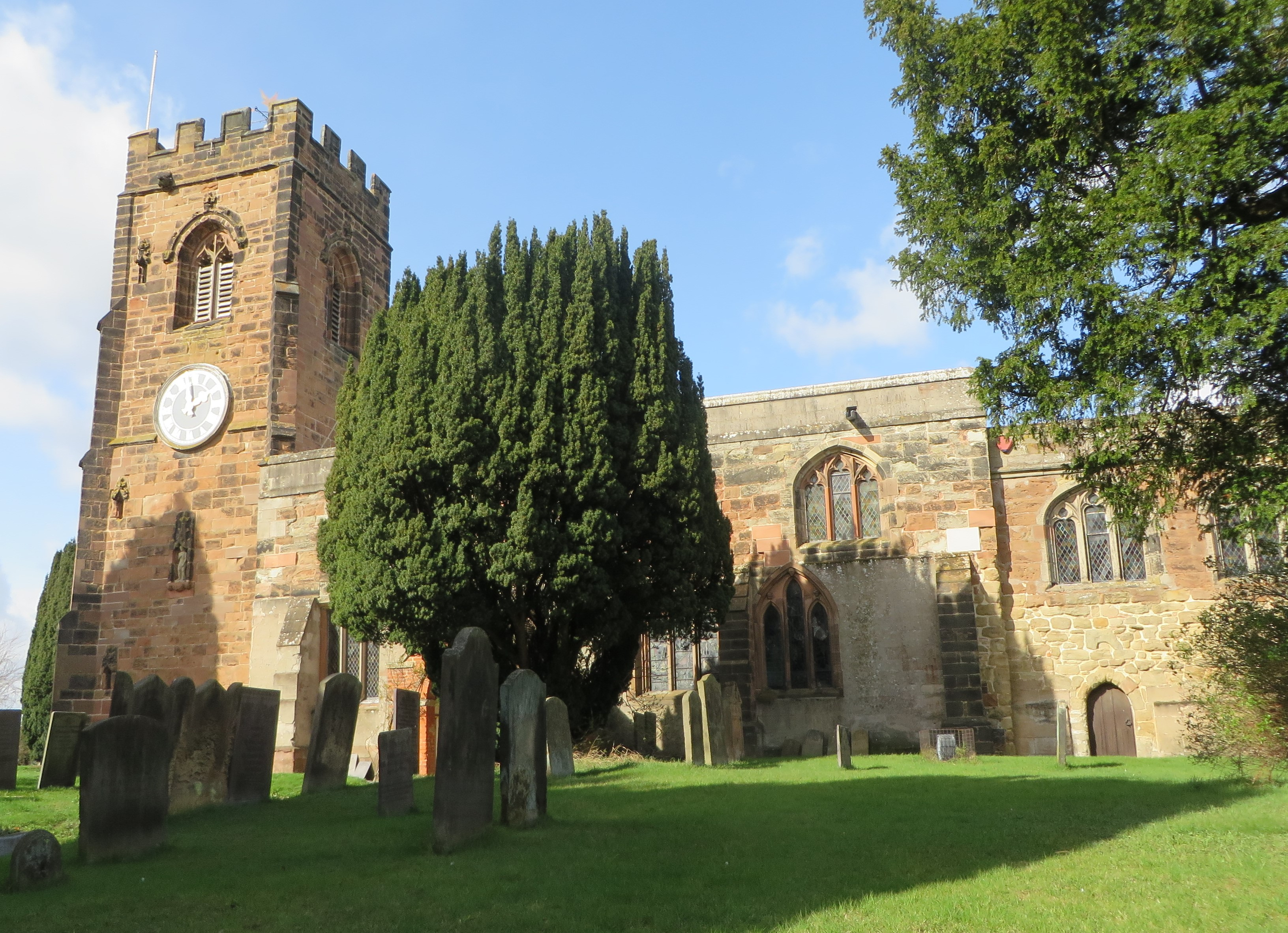 Nave and west tower of the parish church of St John the Baptist, Middleton, Warwickshire, seen from the south